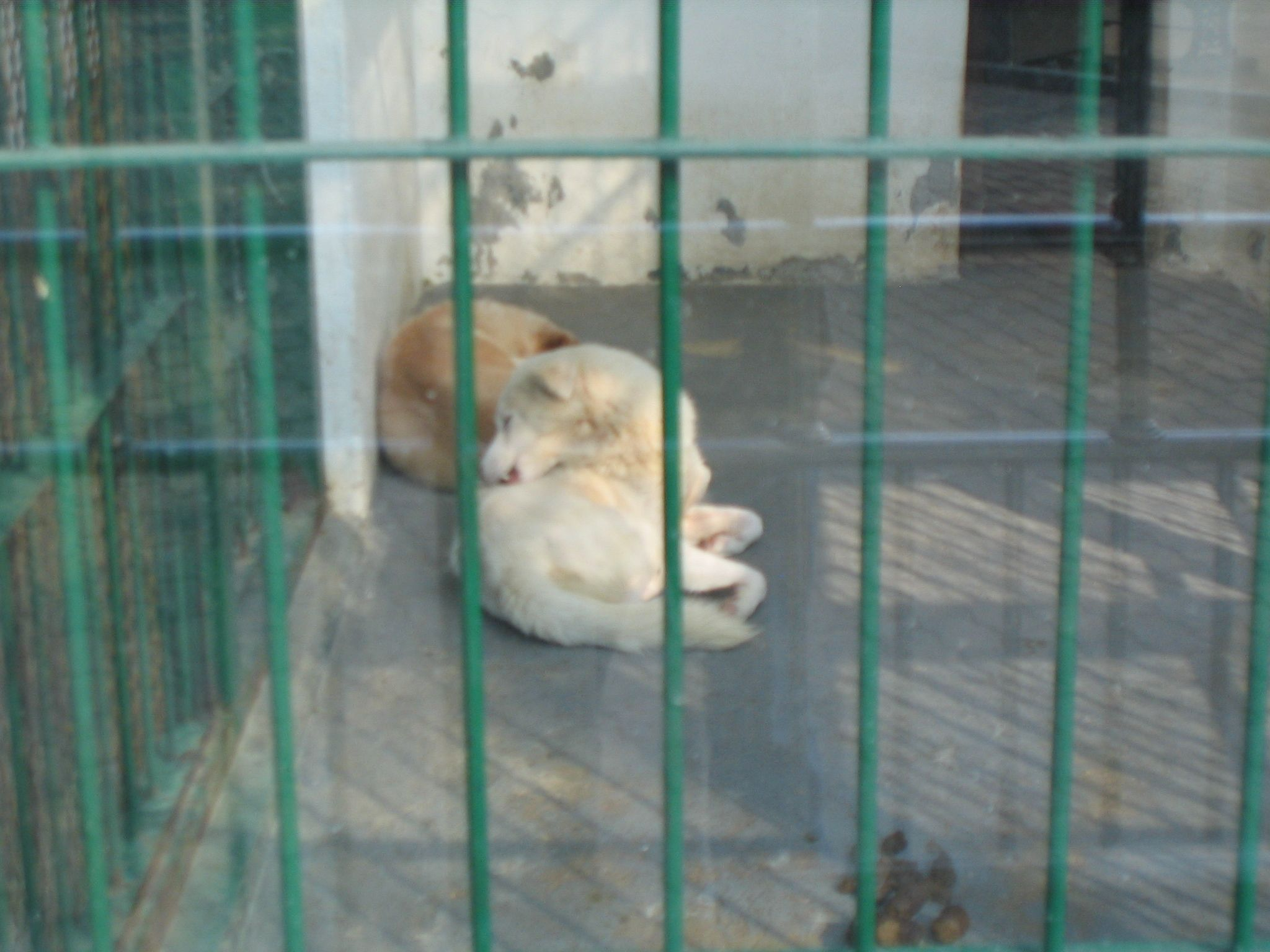 Two Korean Pungsan Dogs, at the Dalseong Park zoo in Daegu, South Korea.